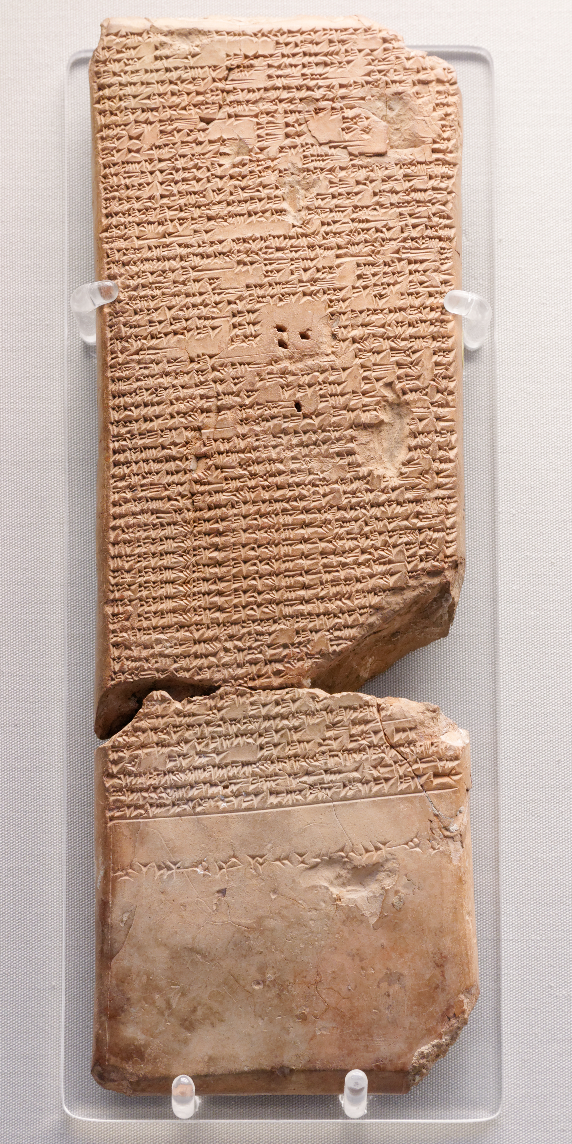 Cuneiform tablet with the legend of Ishtar's descent to the Underworld, from the library of King Ashurbanipal (reigned 669-631 BC).